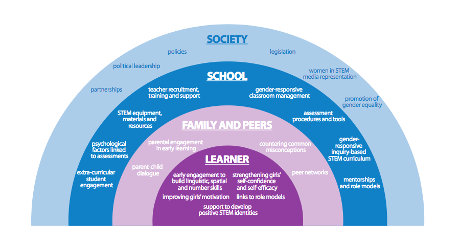 This chart lists a variety of methods that can help increase women's and girls' engagement with and interest in STEM fields.